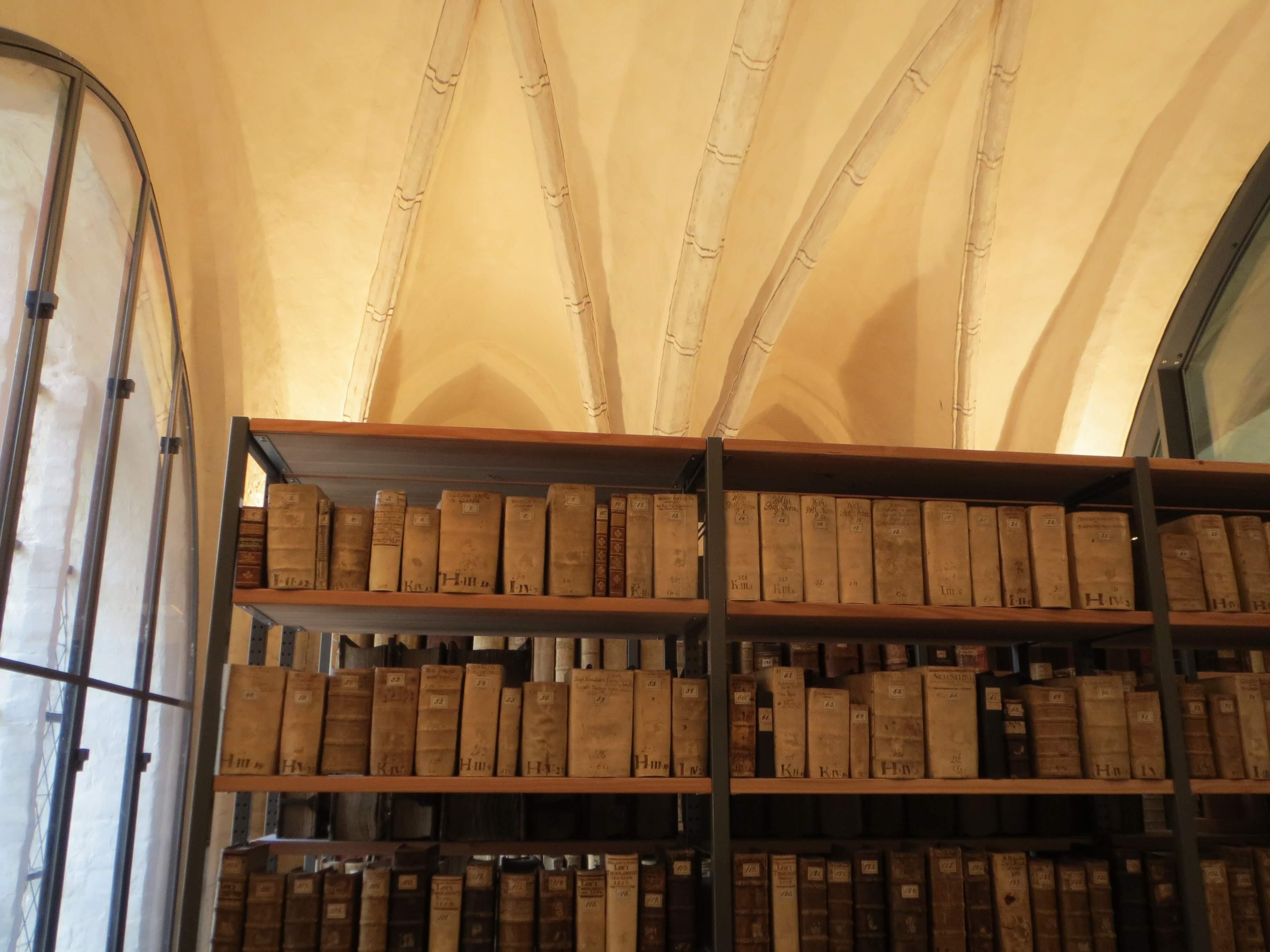 Ministerial Library Greifswald